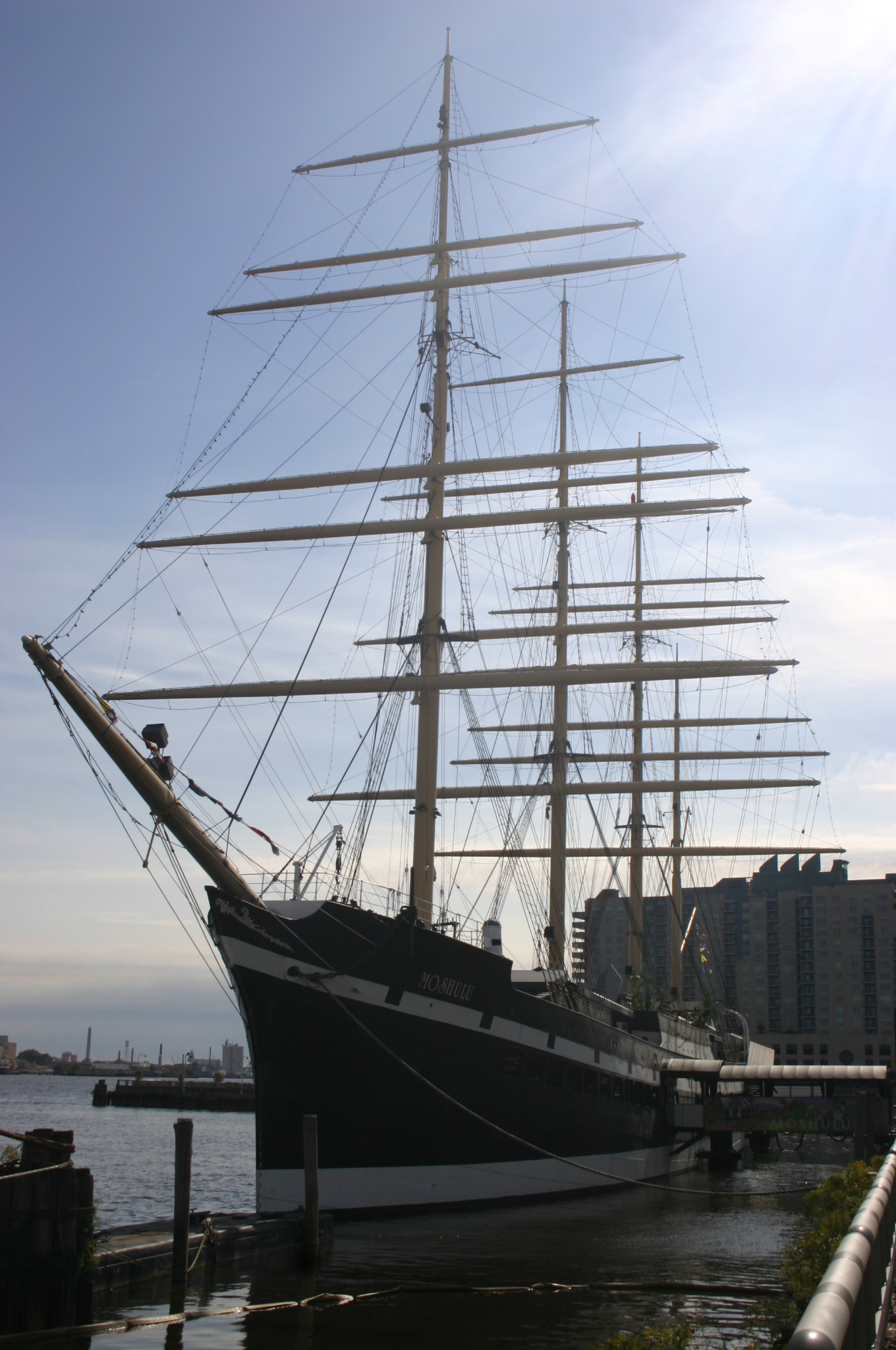 The Barque Moshulu pictured at Penn's Landing, Philadelphia